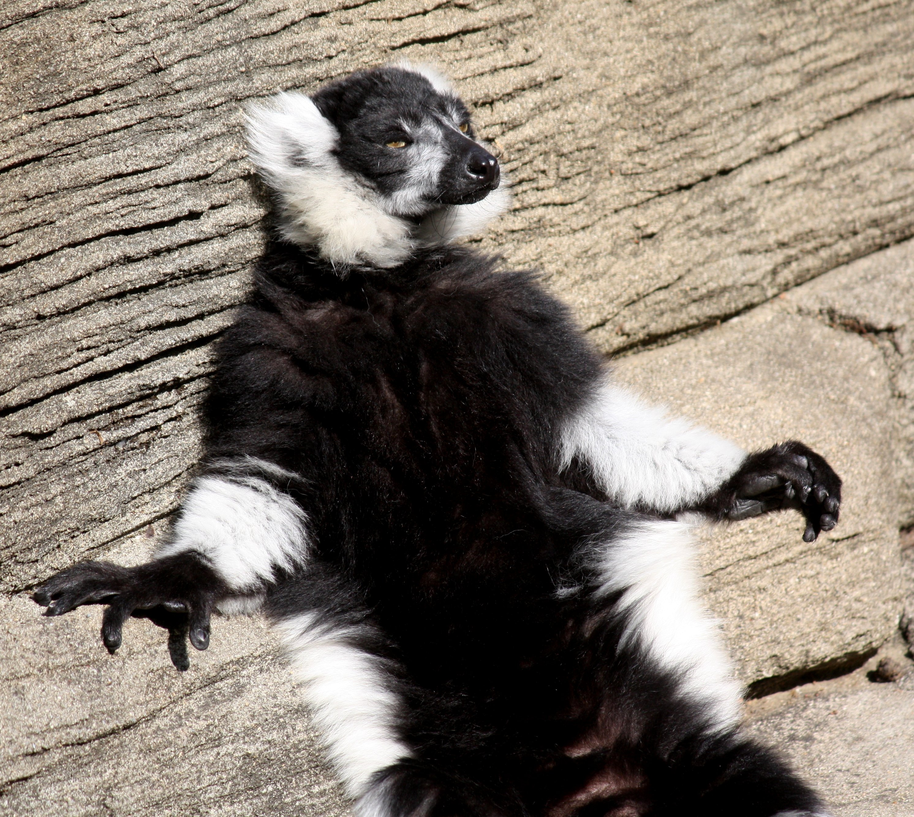 Varecia variegata at Louisville Zoo